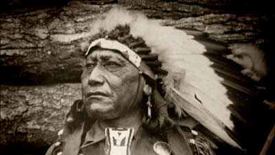 Edmond Two-Two: Native American actor who demonstrated his culture to German citizens up until 1914.